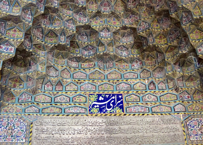 The Main Entrance of Saraye Moshir Bazaar located in Sothern of Vakil Bazaar in Shiraz,Iran. Persian Calligraphy etched on a hard stone is shown beneath the Portico